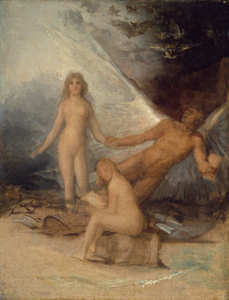 Time, truth and History